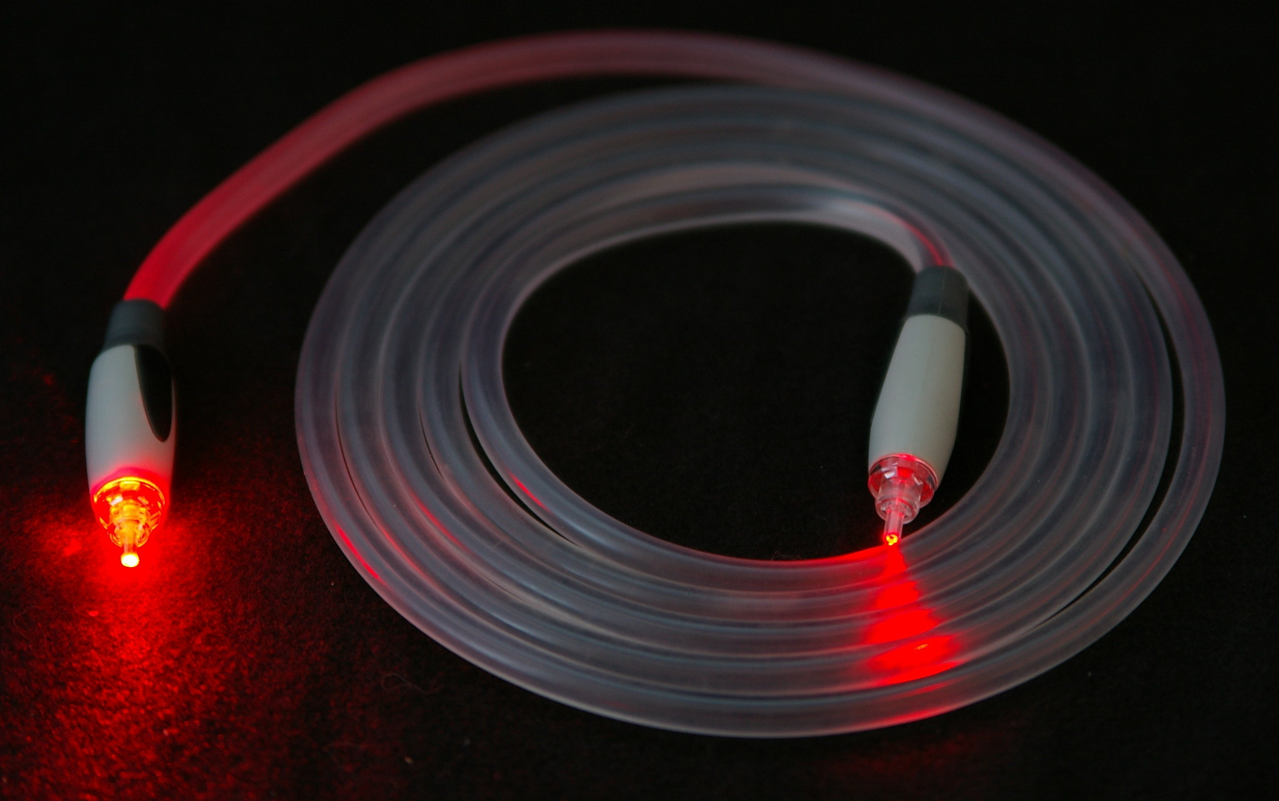 A TOSLINK fiber optic cable with a clear jacket that has a laser being shone onto one end of the cable. The laser is being shone into the left connector; the light coming out the right connector is from the same laser.